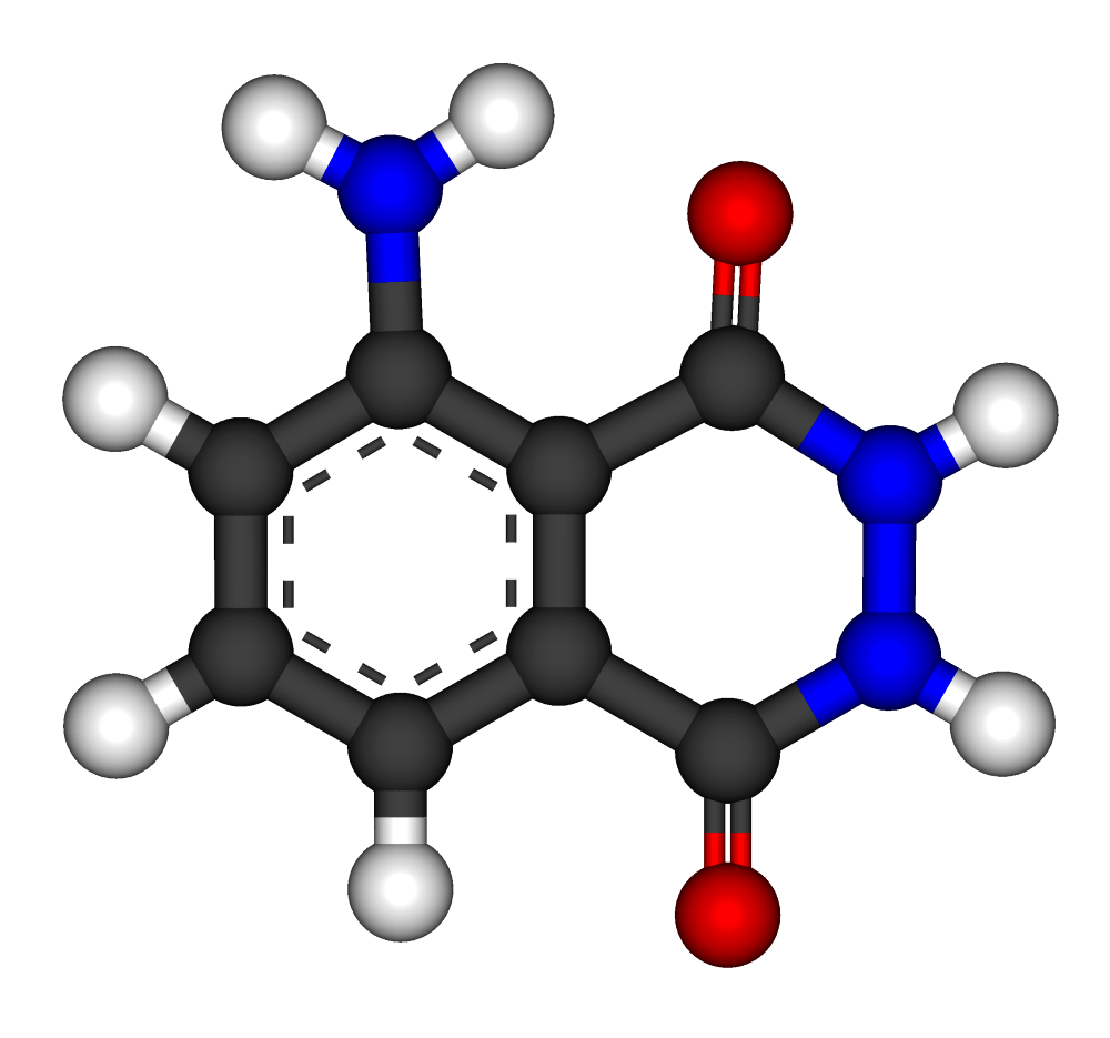 Ball-and-stick model of luminol. Created using ACD/ChemSketch 10.0 and Inkscape.